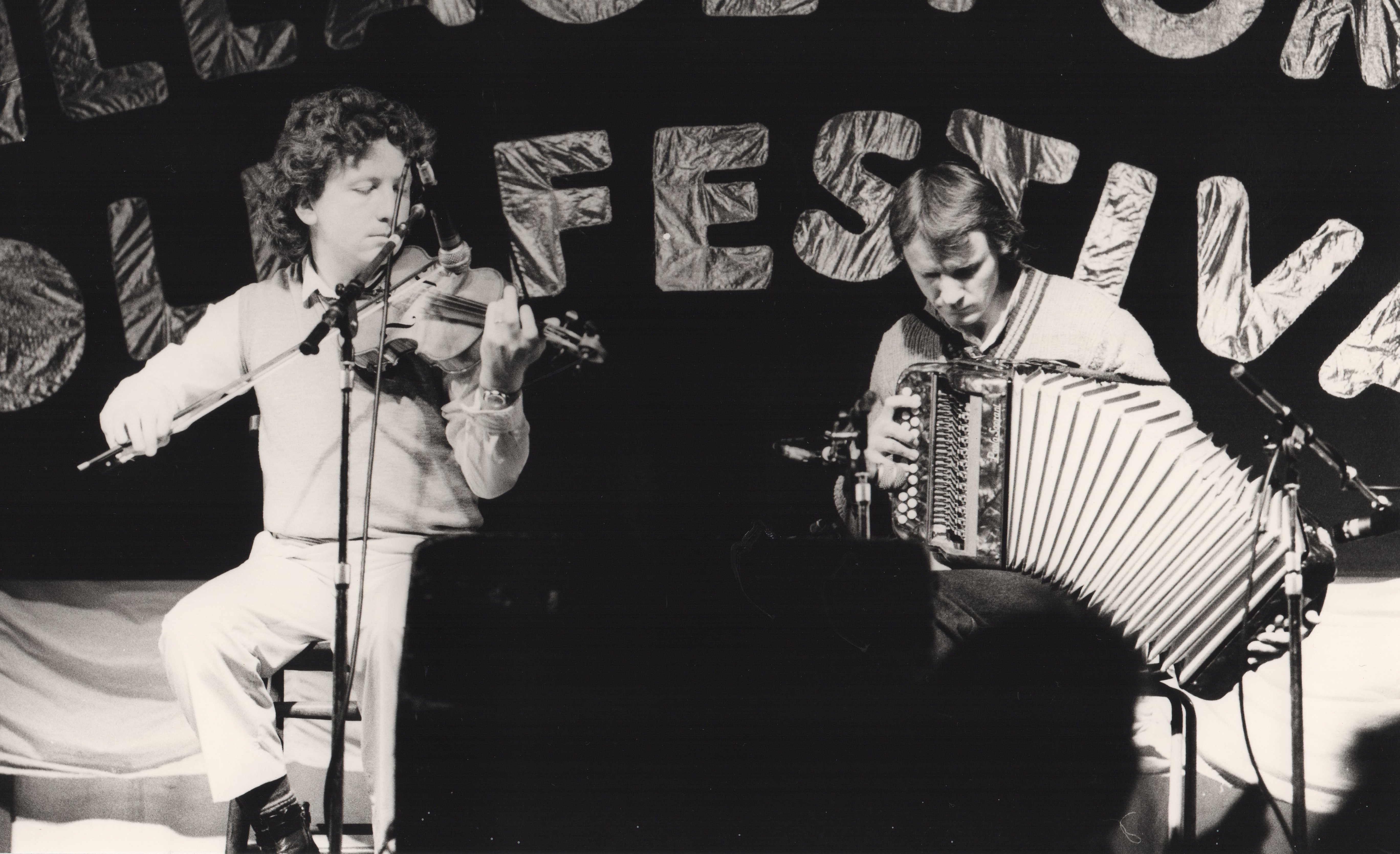 Frankie Gavin (L) and Martin O'Connor (R) on stage with De Dannan, Irish folk band at the 1985 Trowbridge Folk Festival (Tony Rees photograph)